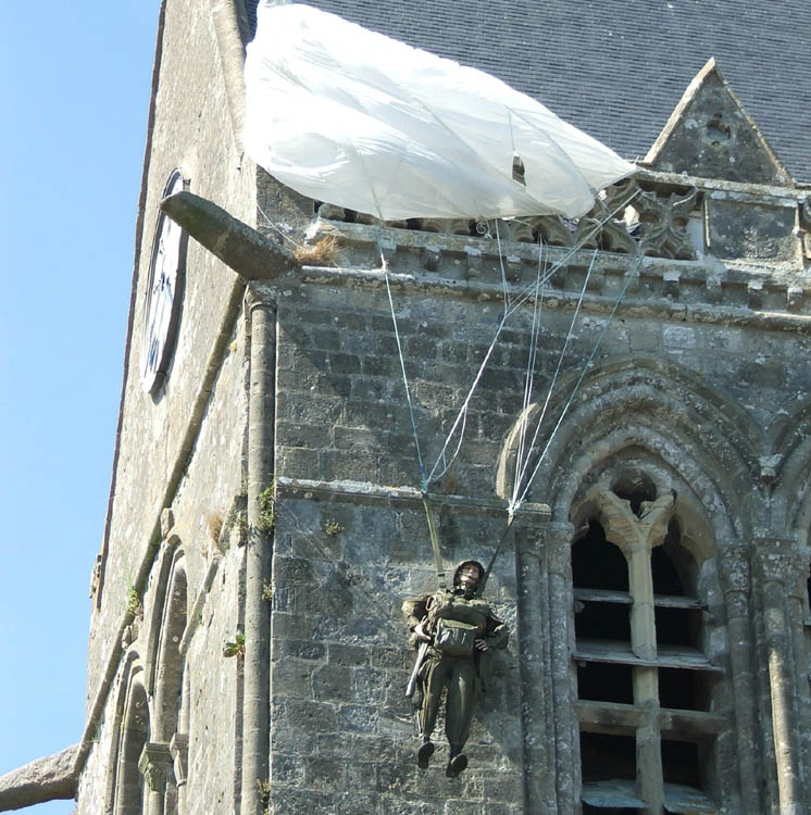 Saint Mere Eglise - Tropper in church tower